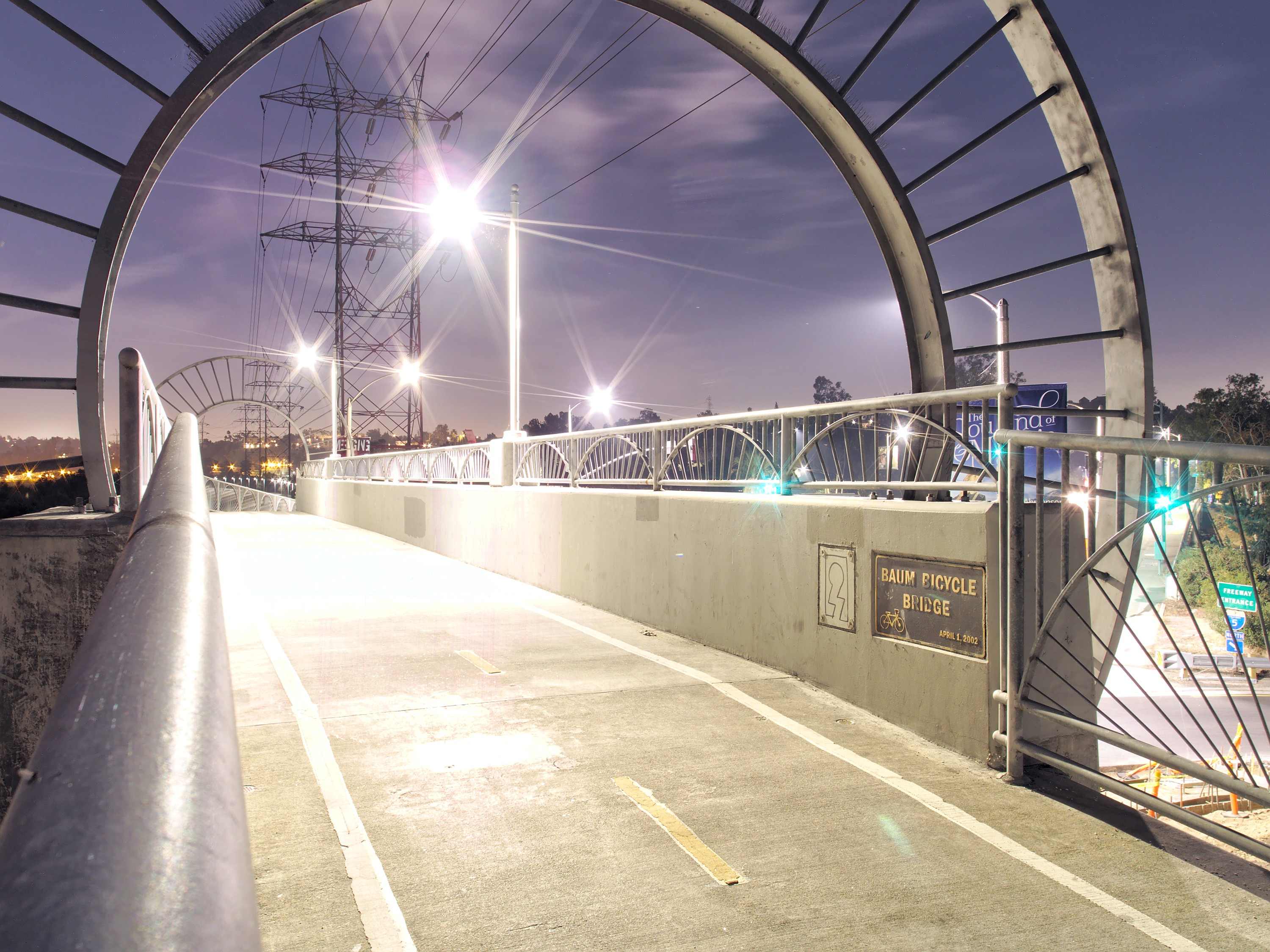 Looking south at night across the Alex Baum Bicycle Bridge, which carries the Los Angeles River bicycle path across Los Feliz Boulevard. Alex Baum (1922-2015) was a longtime advocate for cycling in Los Angeles.[1]